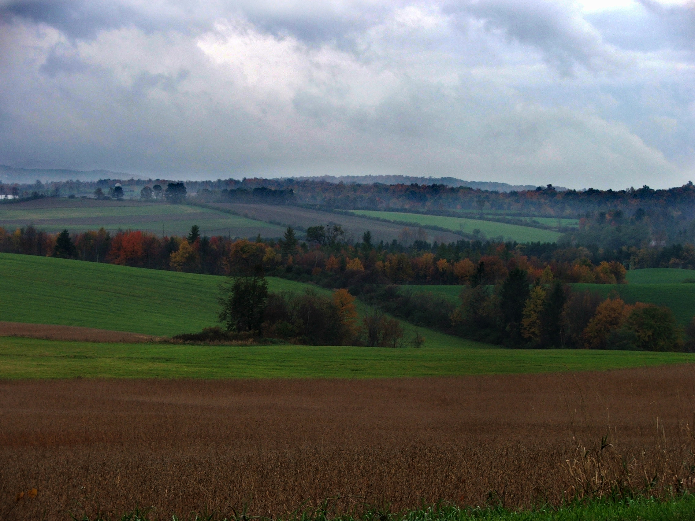 Photo overlooking South Cambridge Road in South Cambridge, NY